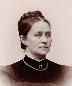 Photograph of the Danish women's rights activist Ingeborg Tolderlund (1848-1935)